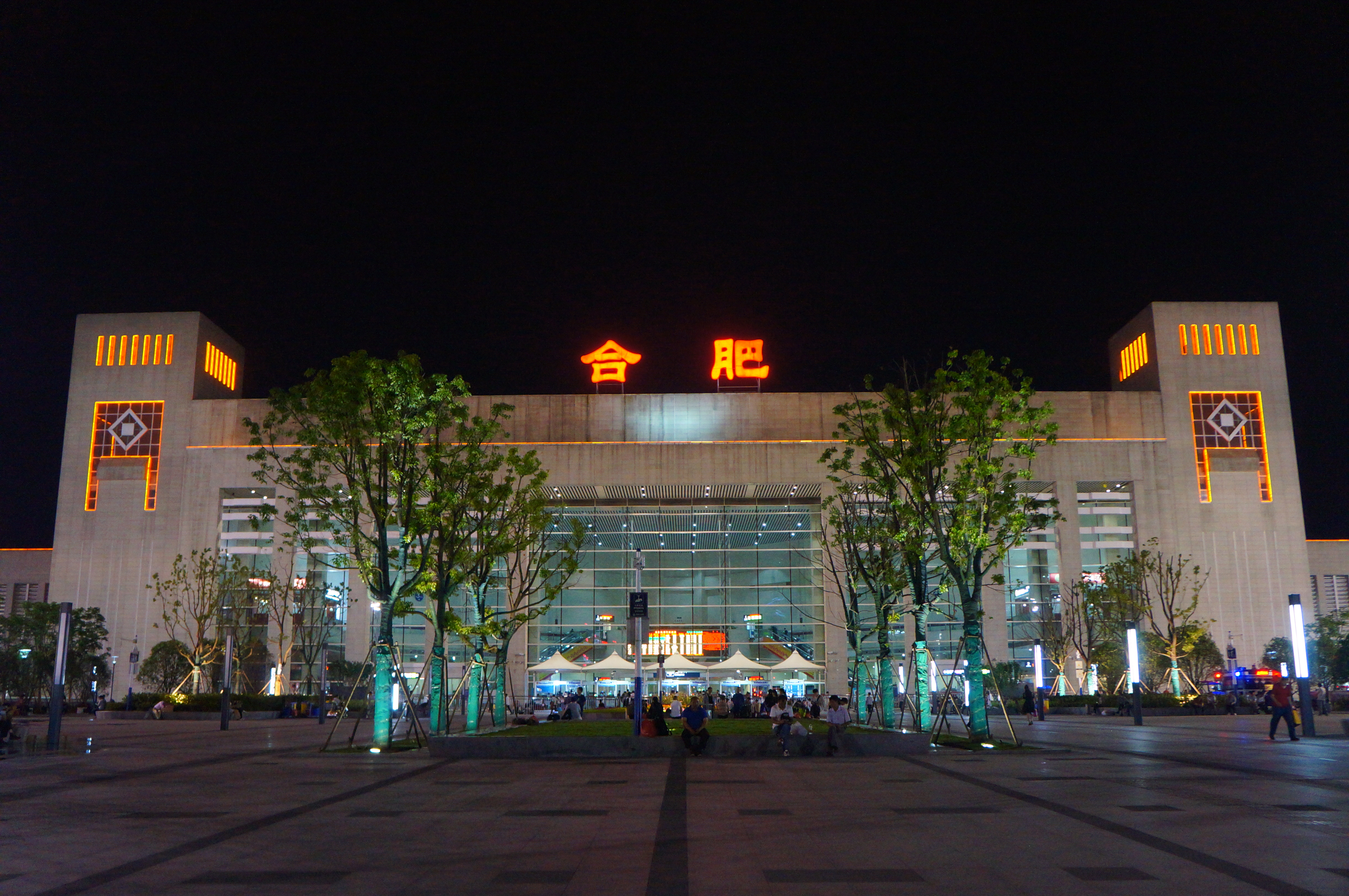 201705 Hefei Railway Station Facade